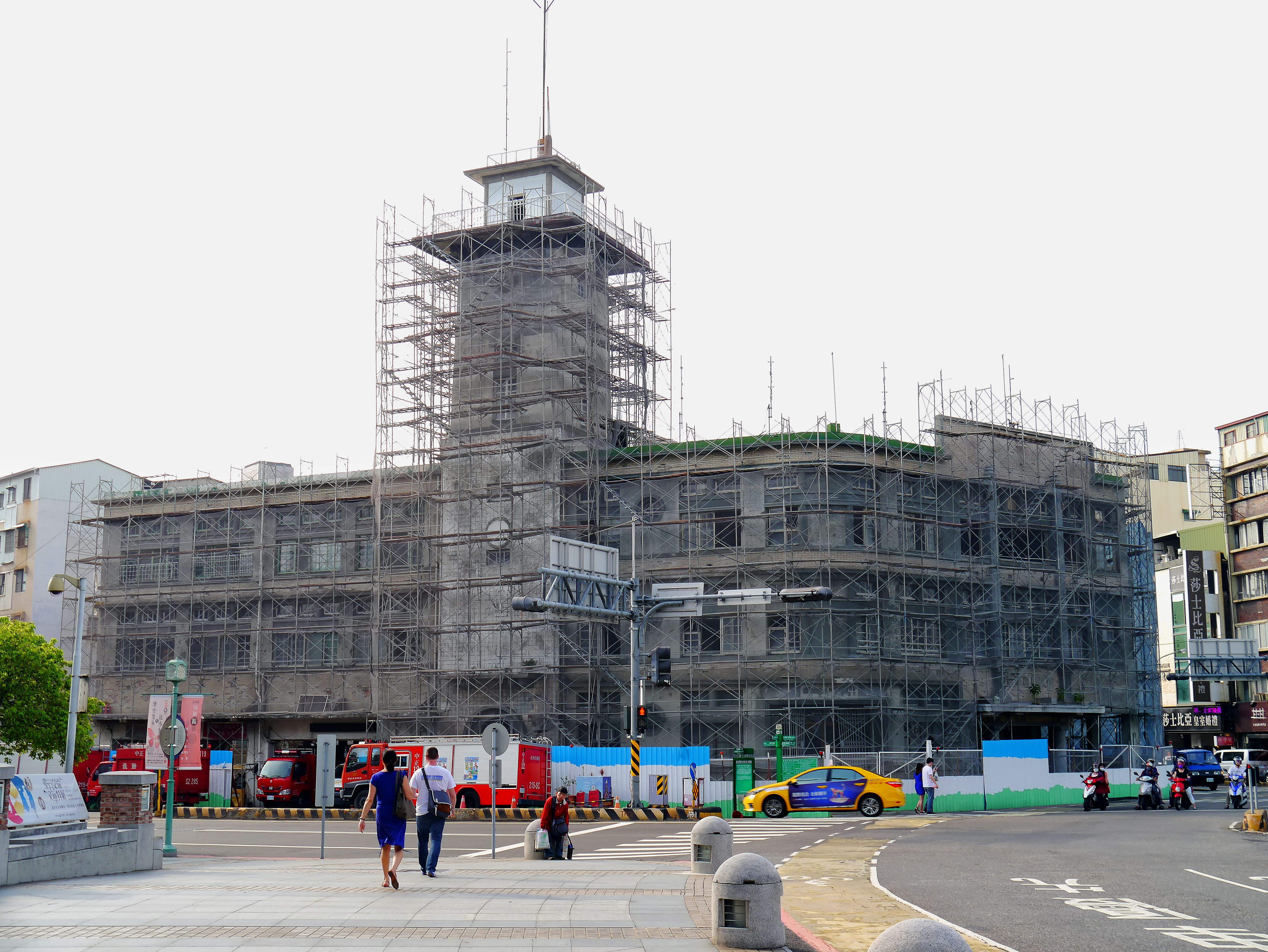 Old Tainan Fire department that under repaired